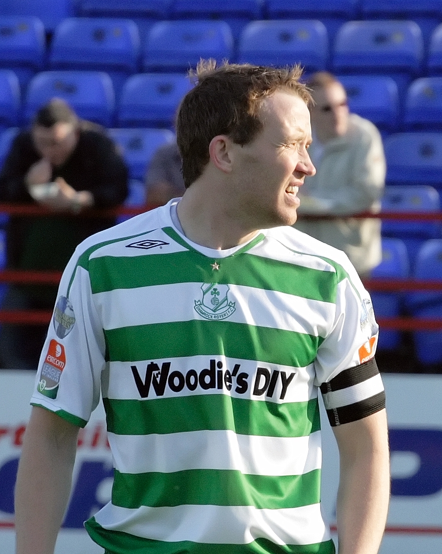 Aidan Price, Shamrock Rovers 2008